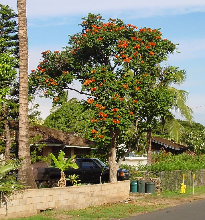 African tulip tree, Fountain tree, Flame-of-the-forest, or Nandi Flame. Photo taken in Hawaii.